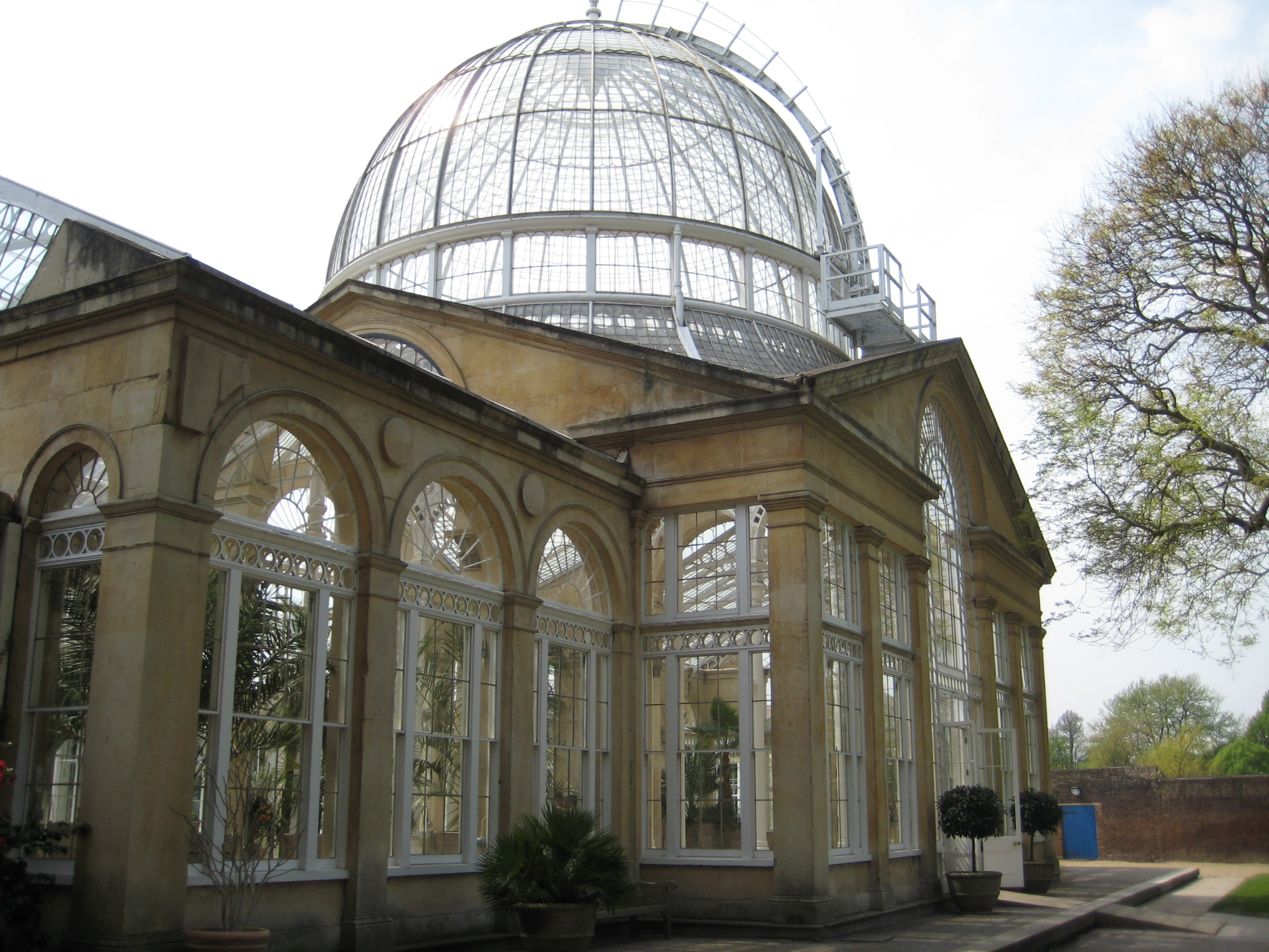 Side view of the back of the Great Conservatory at Syon Park. Taken 5th May 2008 by Ed Sexton. At the time of the photo it was still open to the public but all the wildlife had been removed.